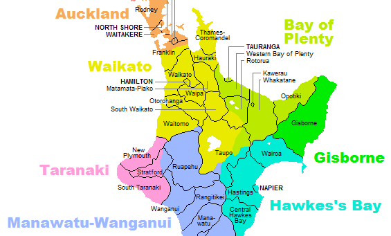 Map of territorial authorities in Weikato Region, cropped from map of territorial authorities (regions, districts, municipalities, etc) in New Zealand